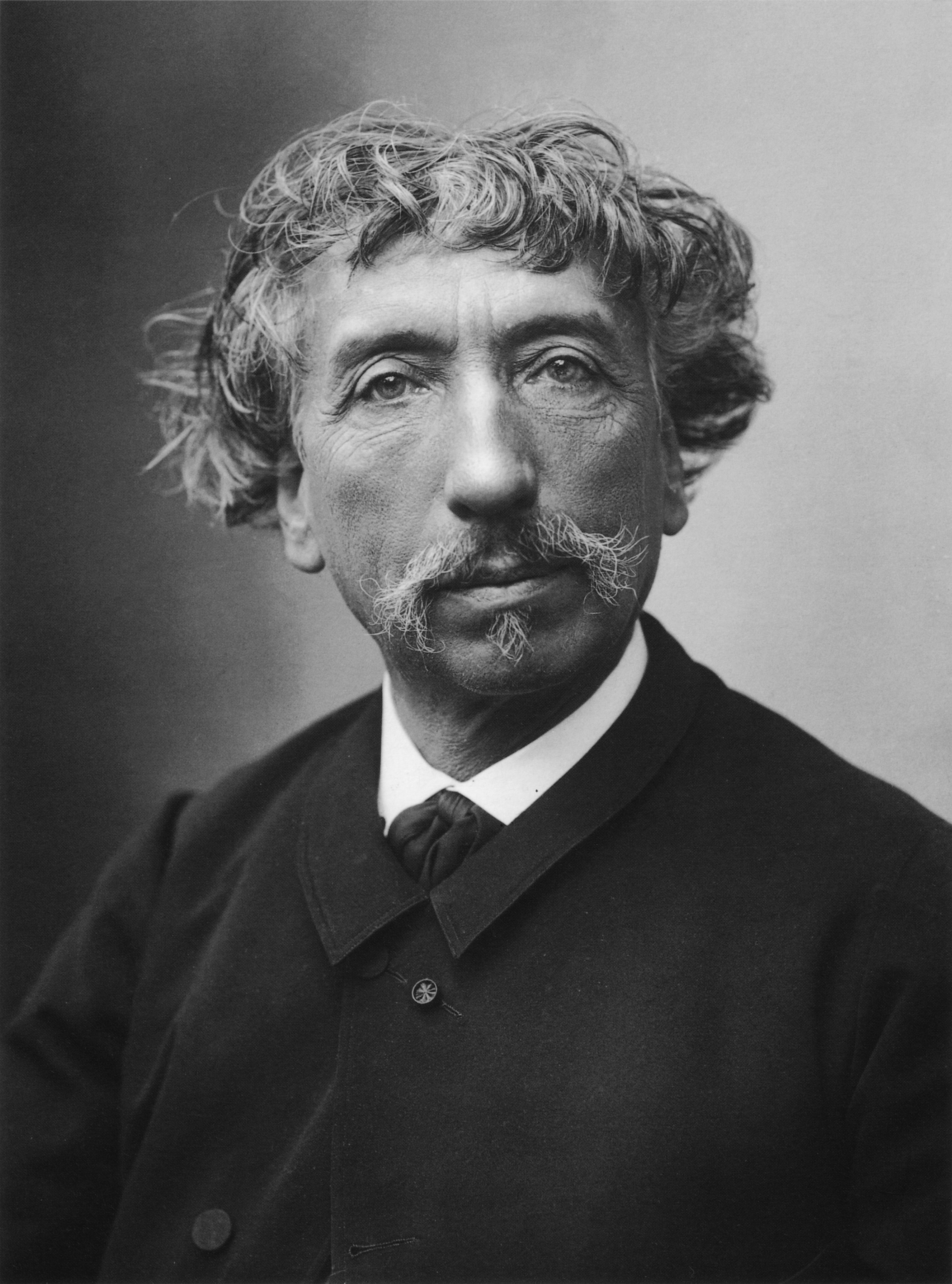 Photographic portrait of Charles Garnier by Nadar, no date